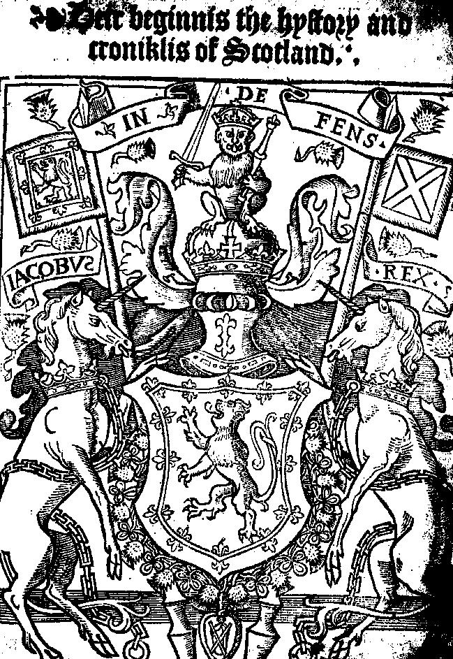 Titlepage of book printed in Edinburgh (1540) with arms of James of Scotland